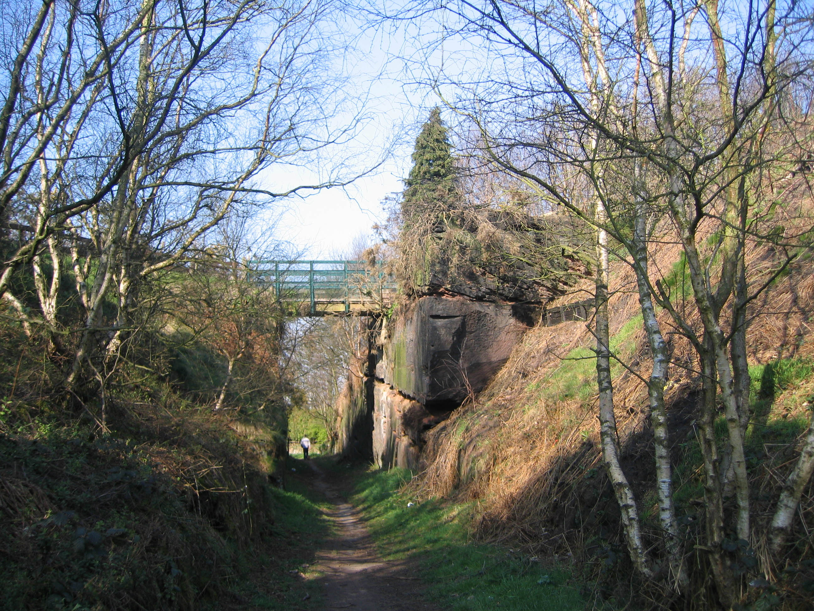 Runcorn Hill